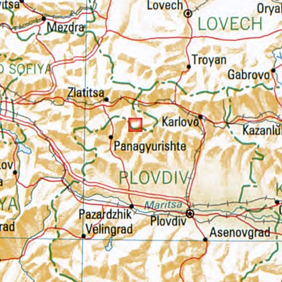 location of Goljam Bogdan vrach in Bulgaria